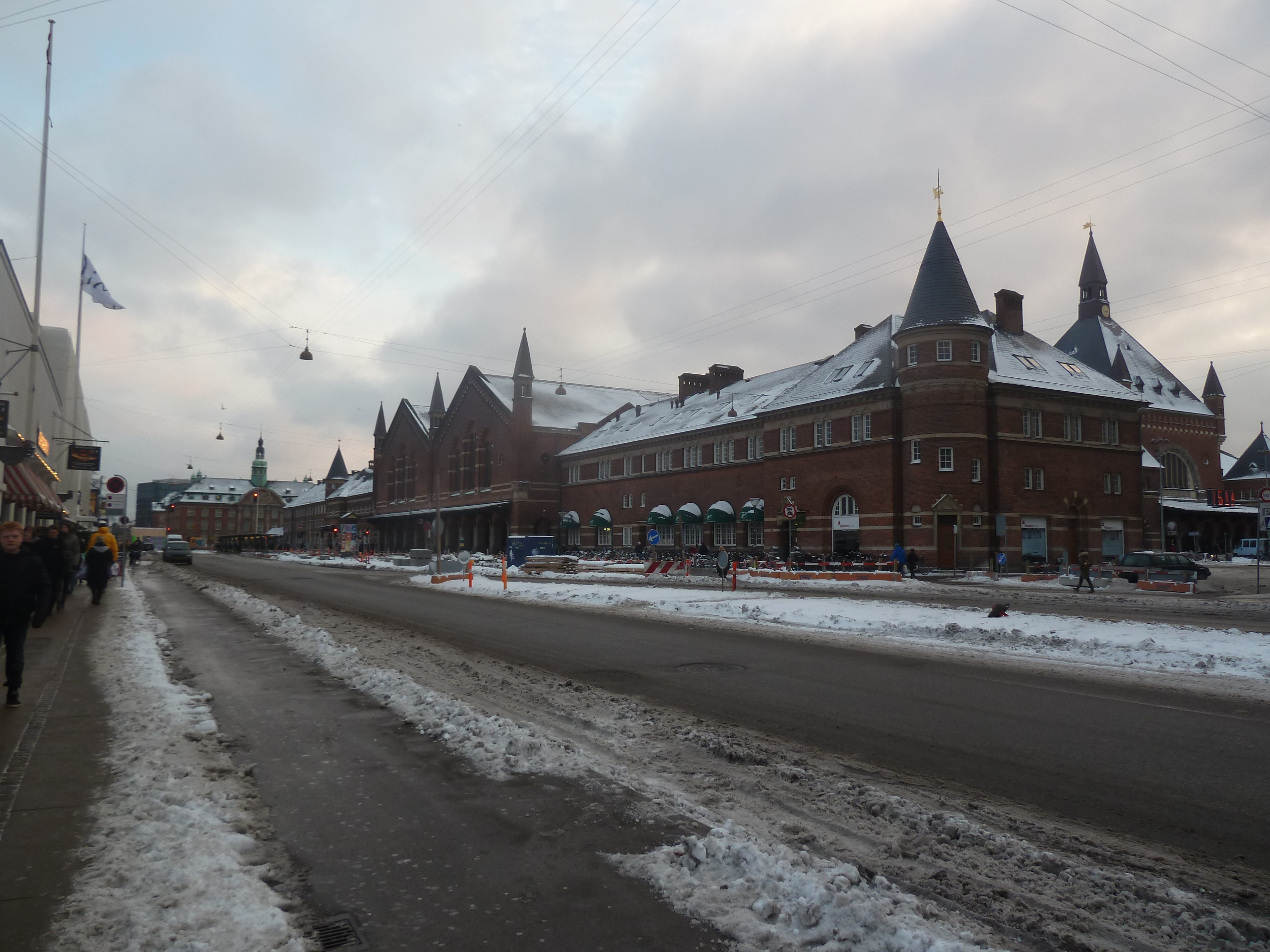 The street Bernstorffsgade at Copenhagen Central Station.